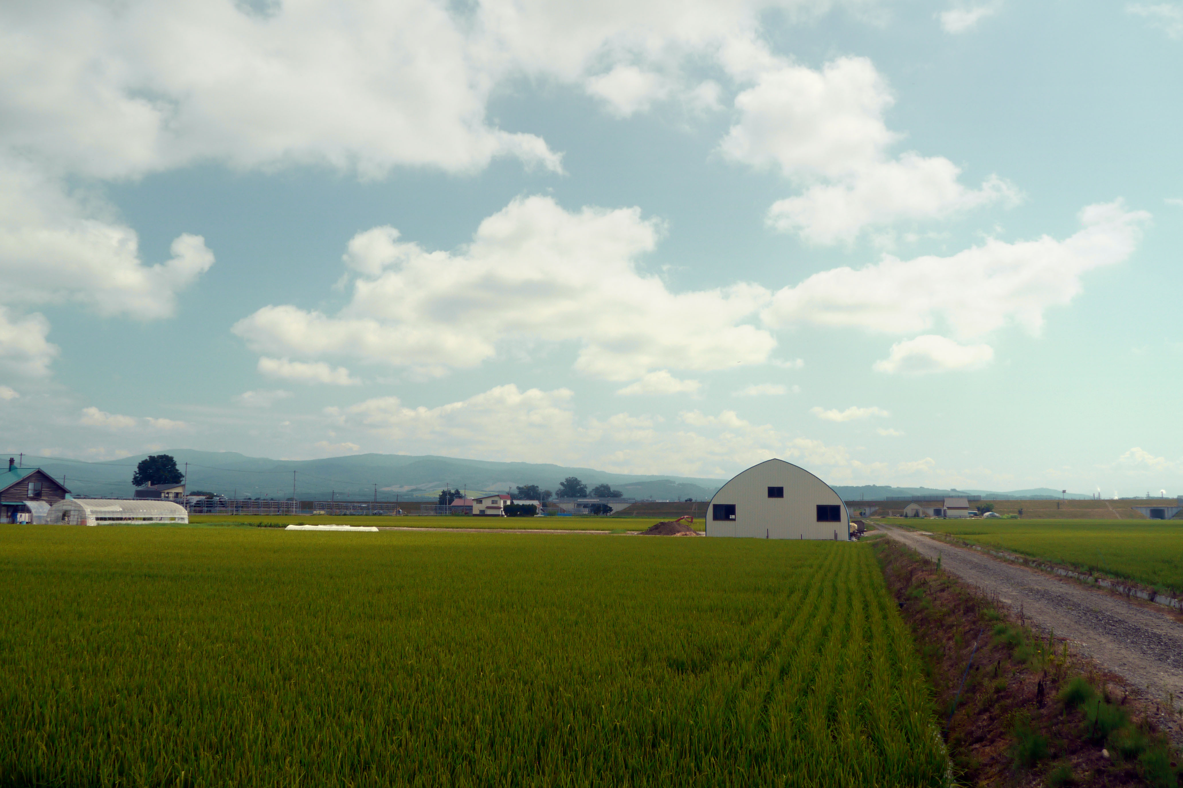 Remains of Nishinayoro Station of the Shinmei Line in Hokkaido, Japan.